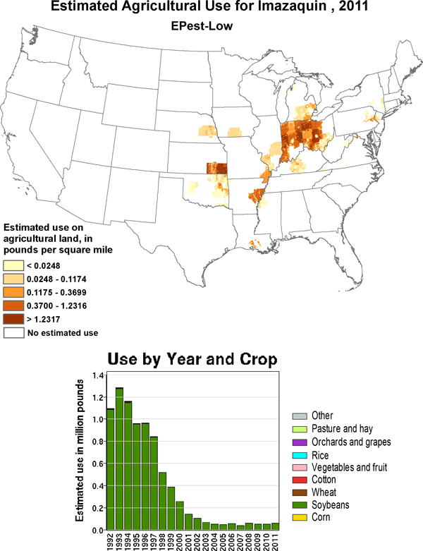 Imazaquin map of use, USA, 2011 (estimated)